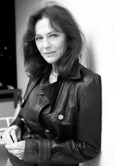 Jacqueline Bisset in Almaty, Kazakhstan in September 2007.